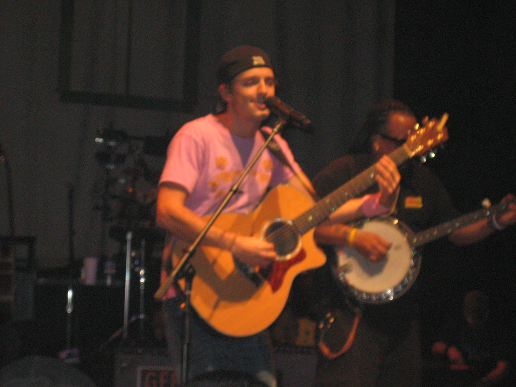 Jason Mraz & Toca Rivera. Taken at the Jason Mraz Concert at Copley Symphony Hall in San Diego, California on November 26 2005.